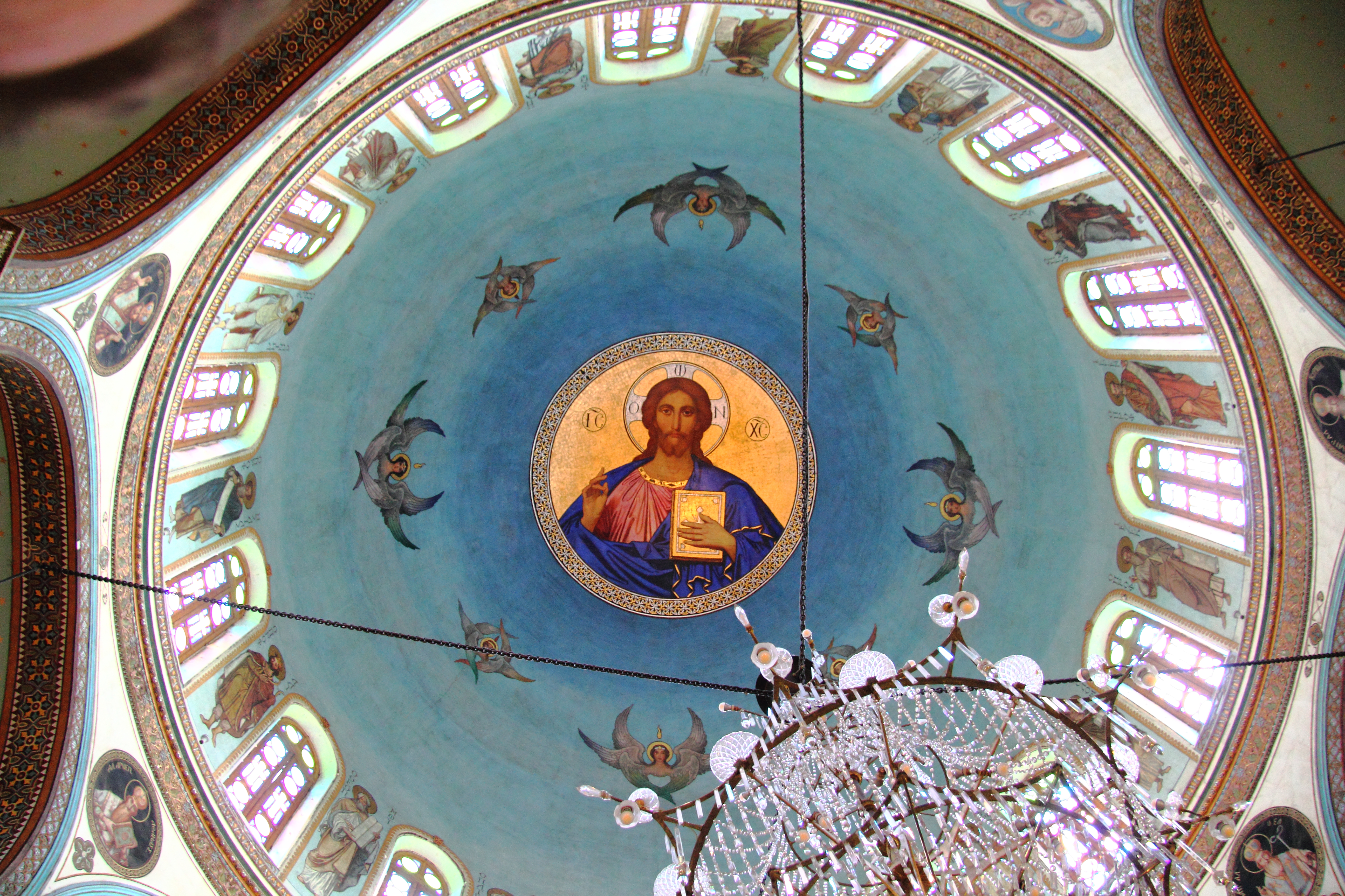 Greek Orthodox Church of St. George (Cairo)